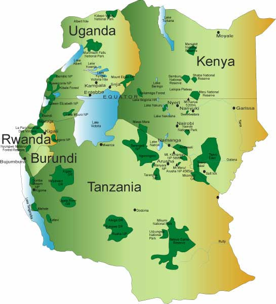 East African Community map